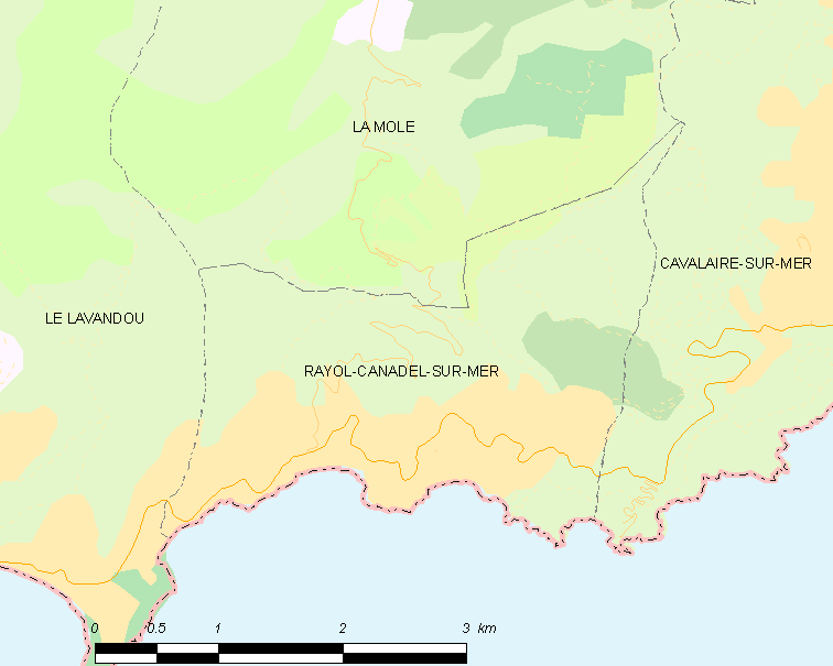 Map of French municipality Rayol-Canadel-sur-Mer